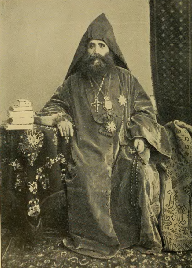 Armenian Patriarch of Constantinople circa 1896, fourth highest dignatary in the Armenian church.